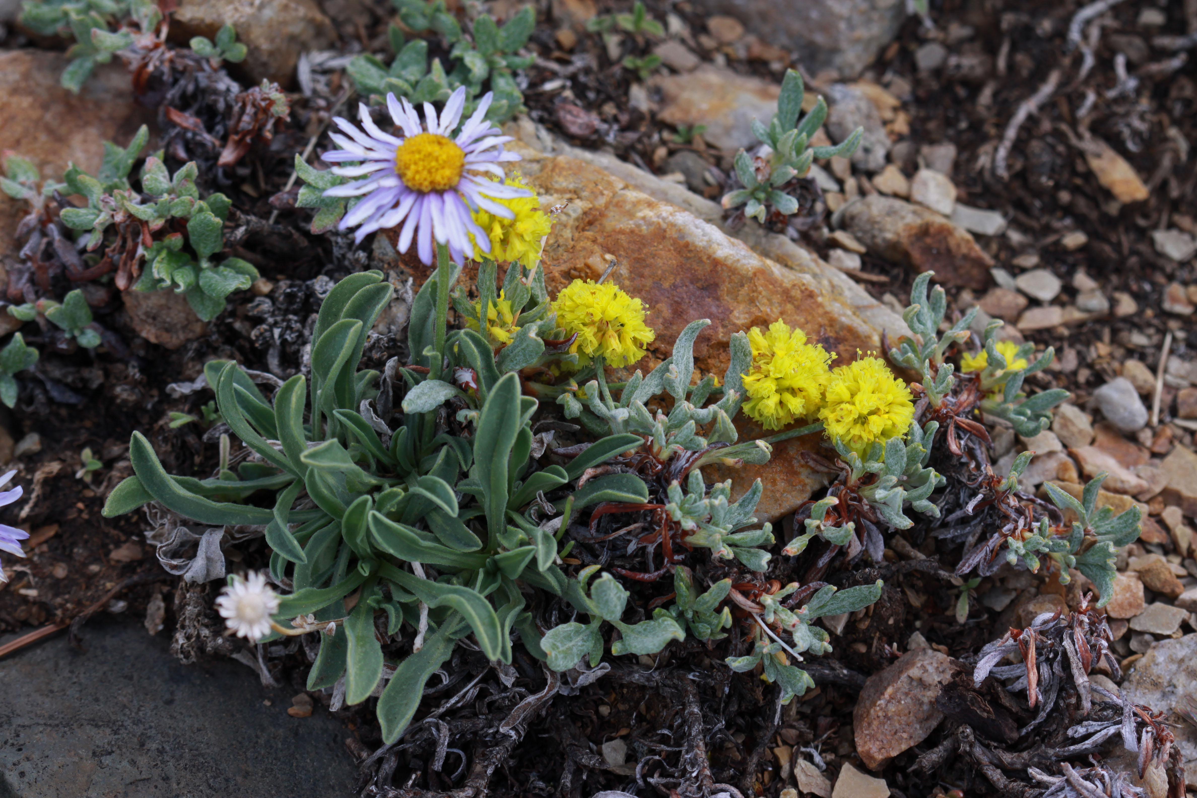 Tufted fleabane (Erigeron caespitosus), Aster family (Asteraceae), and Shortstem buckwheat (Eriogonum brevicaule var. brevicaule), Buckwheat family (Polygonaceae). The top of the Mount Baldy, Snowbird, Little Cottonwood Canyon, Utah; elevation 3367 m.